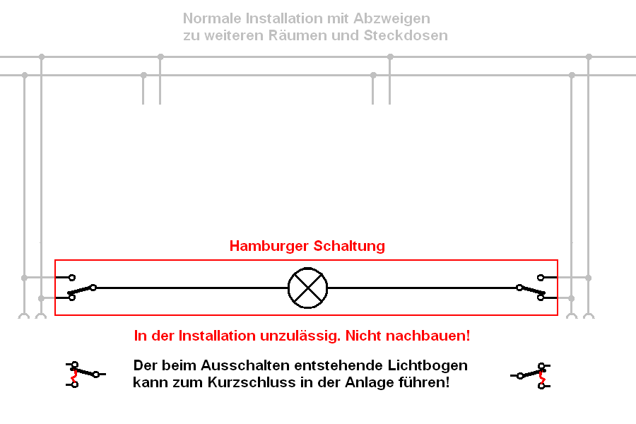 Carter 3-way switch. Might be realised only in triangle installations, where neutral wire is missing.